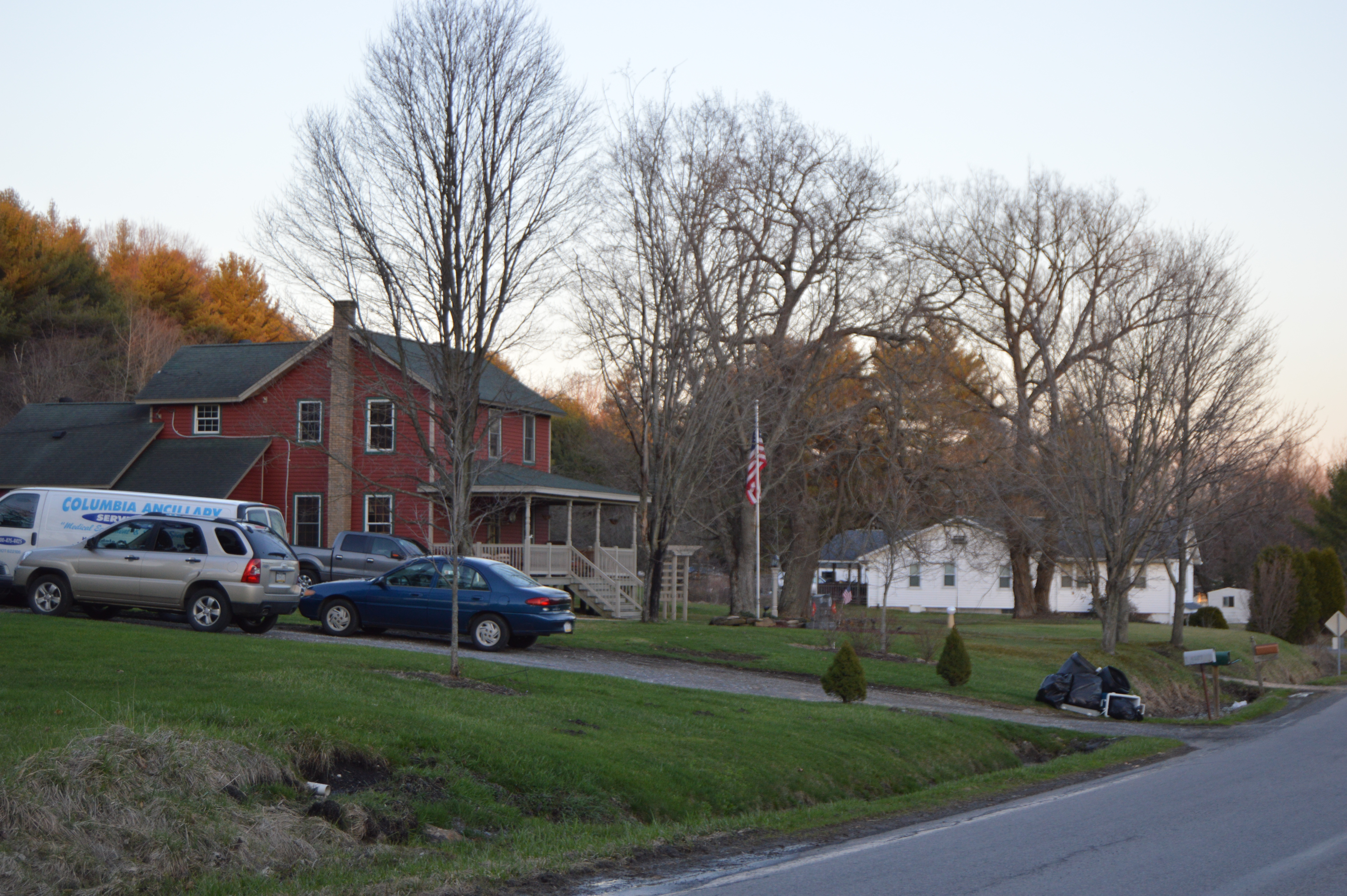 Houses along Irvona Road at Berwinsdale in Jordan Township, Clearfield County, Pennsylvania, United States.